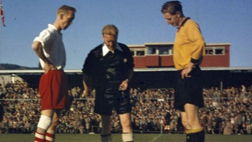 Myntkast mellom Fredrikstads Arne Pedersen og Ballklubbens Thorbjørn Svenssen foran 33 073 tilskuere på Ullevaal stadion. Dommer er Leif Gulliksen fra Ørn-Horten